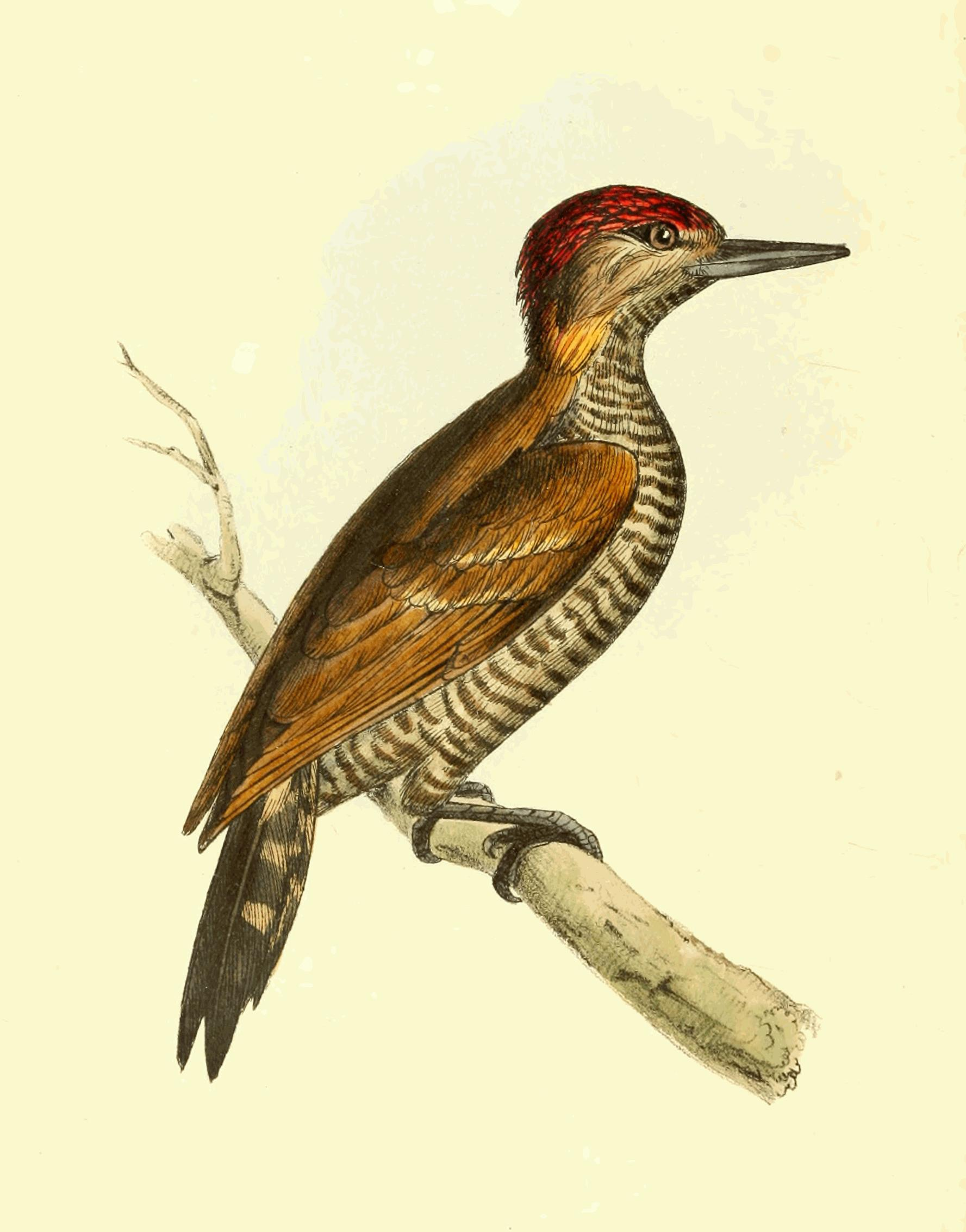 Plate 78. Picus affinis. Golden-naped Woodpecker. Modern accepted name (2012) is Veniliornis affinis[1].